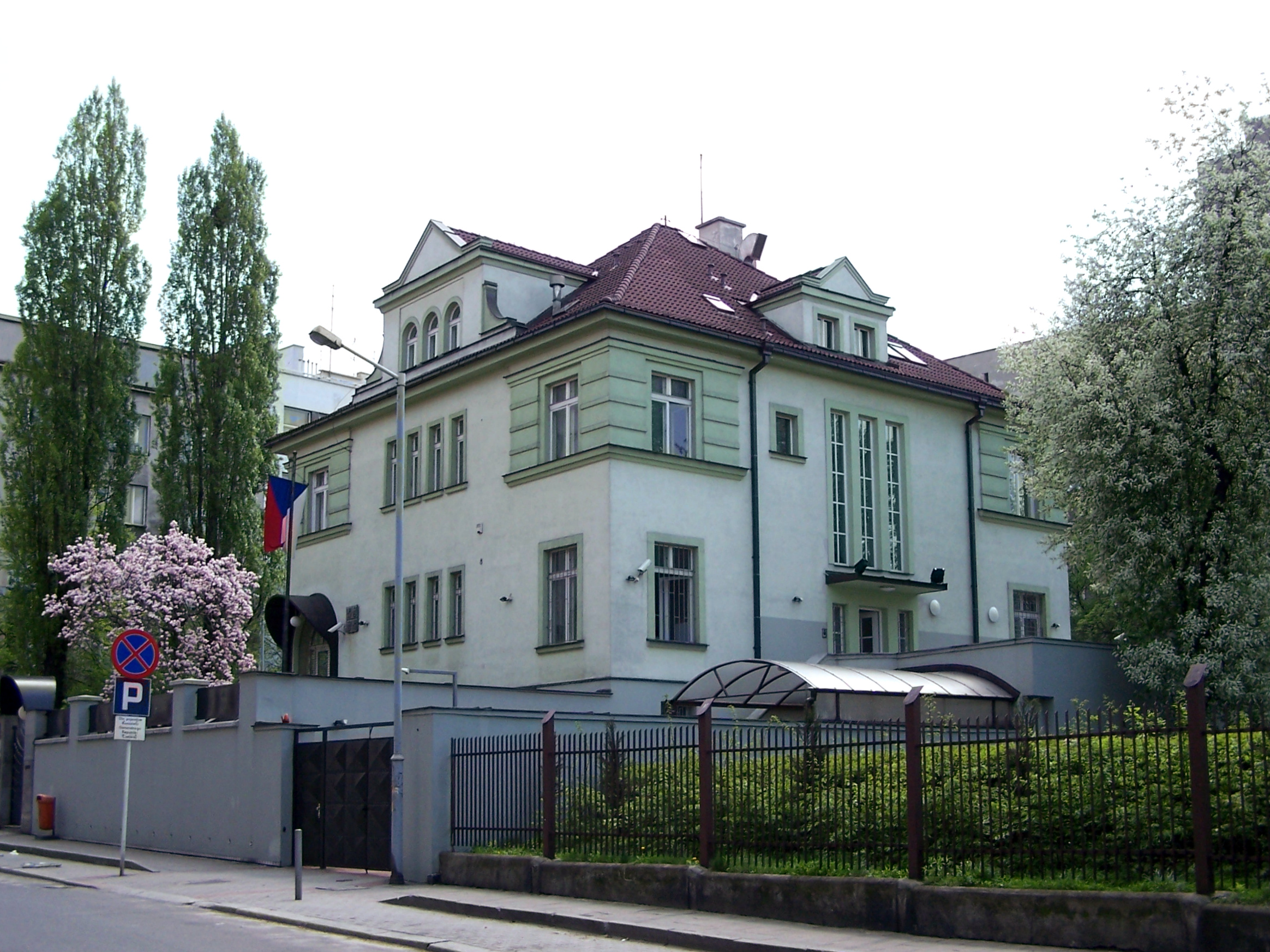 Consulate of Czechia in Katowice, Poland